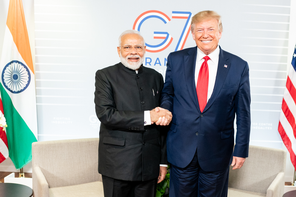 President Donald J. Trump participates in bilateral meeting with the Prime Minister of the Republic of India Narendra Modi at the Centre de Congrés Bellevue Monday, Aug. 26, 2019, in Biarritz, France, site of the G7 Summit. (Official White House Photo by Shealah Craighead)